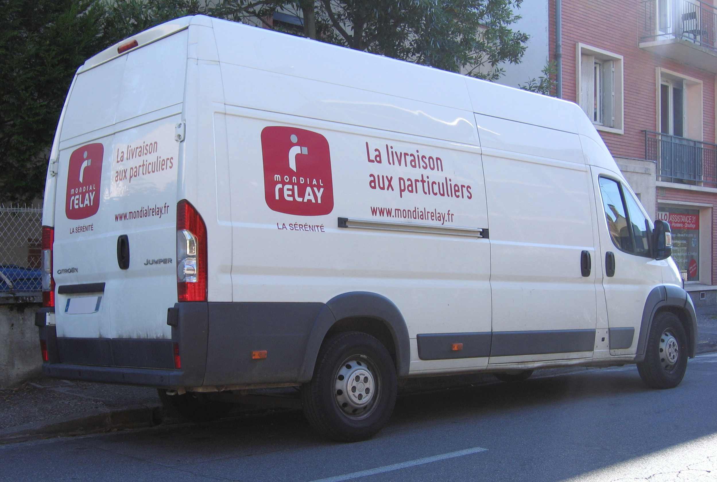 L4H3 stands for 4th length and 3rd height available in the product catalogue (i.e. the maximum possible size): 6,363 mm (250.5 in) long x 2,050 mm (80.7 in) wide x 2,764 mm (108.8 in) high (17 m3 or 22.2 cu yd of cargo space).